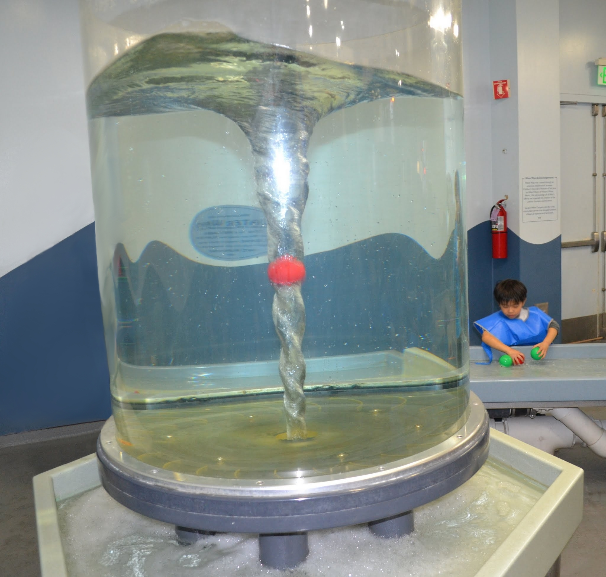 Water display at children's discovery museum in San Jose, California